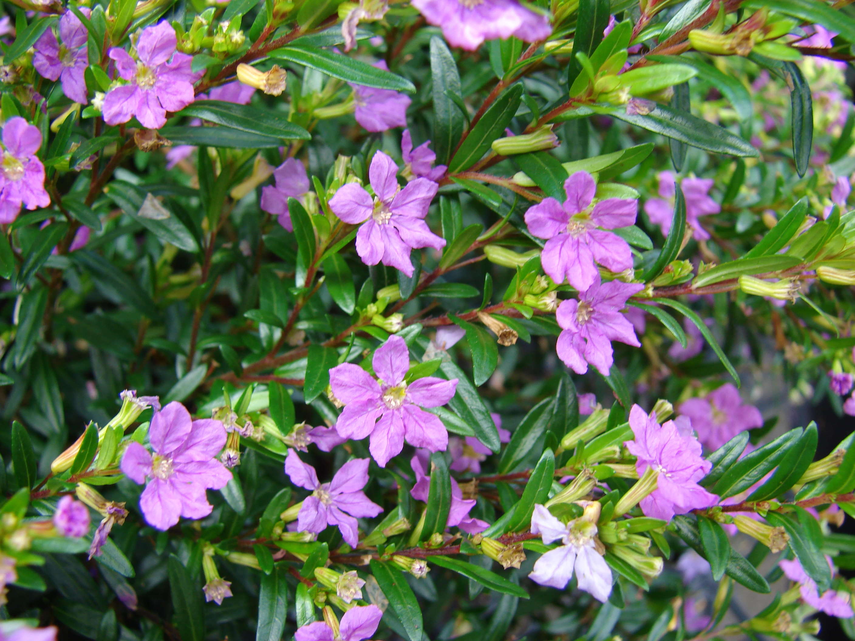 Cuphea hyssopifolia (flowers and leaves). Location: Maui, Kula Ace Hardware and Nursery